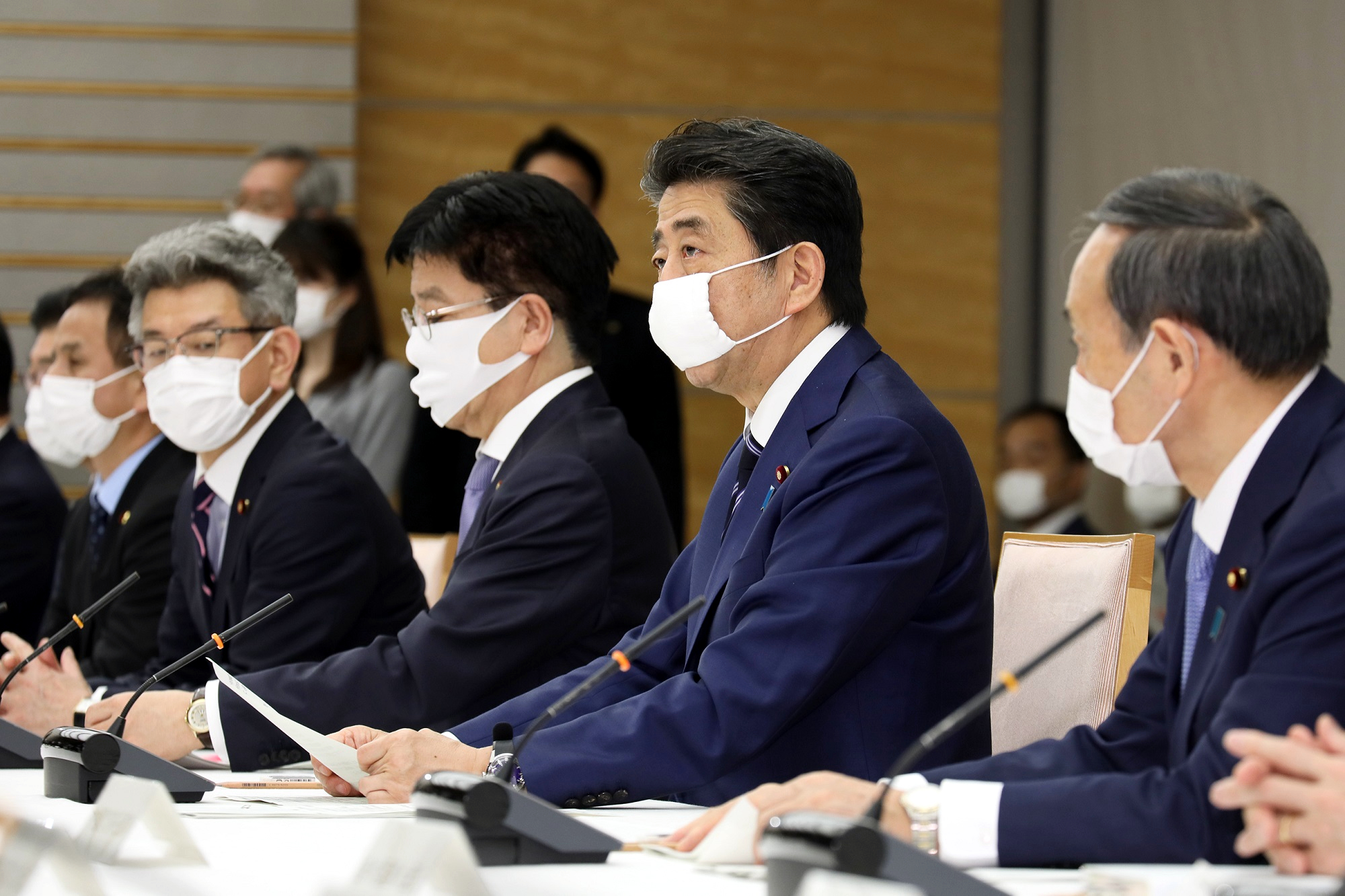 Shinzō Abe, Prime Minister, Katsunobu Katō, Minister of Health, Labour and Welfare, Yoshihide Suga, Chief Cabinet Secretary, and Ryōta Takeda, Chairperson of the National Public Safety Commission, attended a meeting of the Novel Coronavirus Response Headquarters at the Prime Minister's Official Residence in Chiyoda Ward, Tōkyō Metropolis on April 1, 2020.